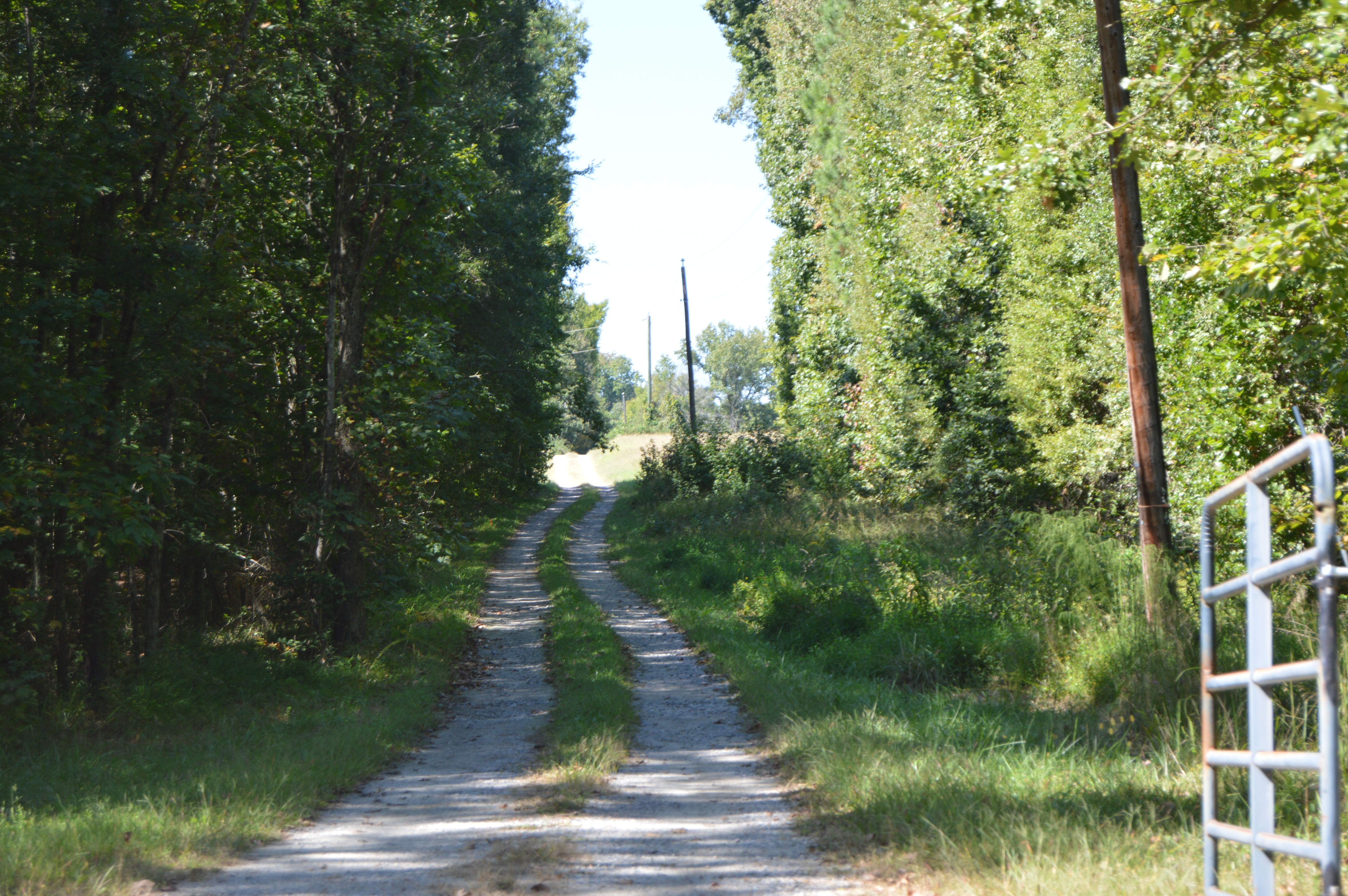 Driveway to the Fuqua Farm, located at 8700 Bethia Road northeast of Winterpock in Chesterfield County, Virginia, United States. The estate is listed on the National Register of Historic Places.